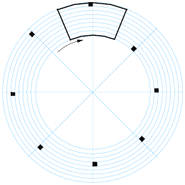 Schematic diagram of a Nipkow disk; drawn with xfig